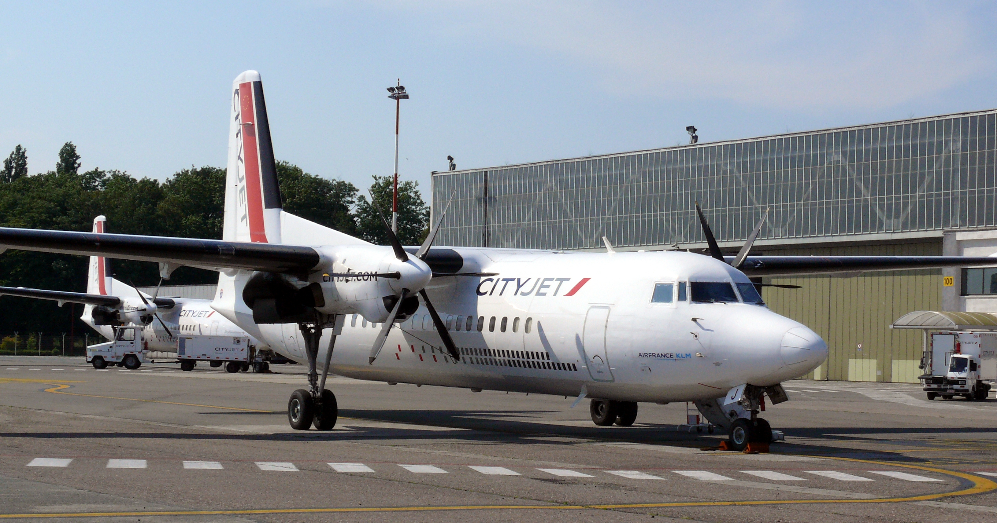 CityJet Fokker 50 OO-VLJ at Antwerp International Airport. The Fokker F27 Mk. 50, known as the Fokker 50, is a turboprop-powered airliner, built by Fokker in the Netherlands.